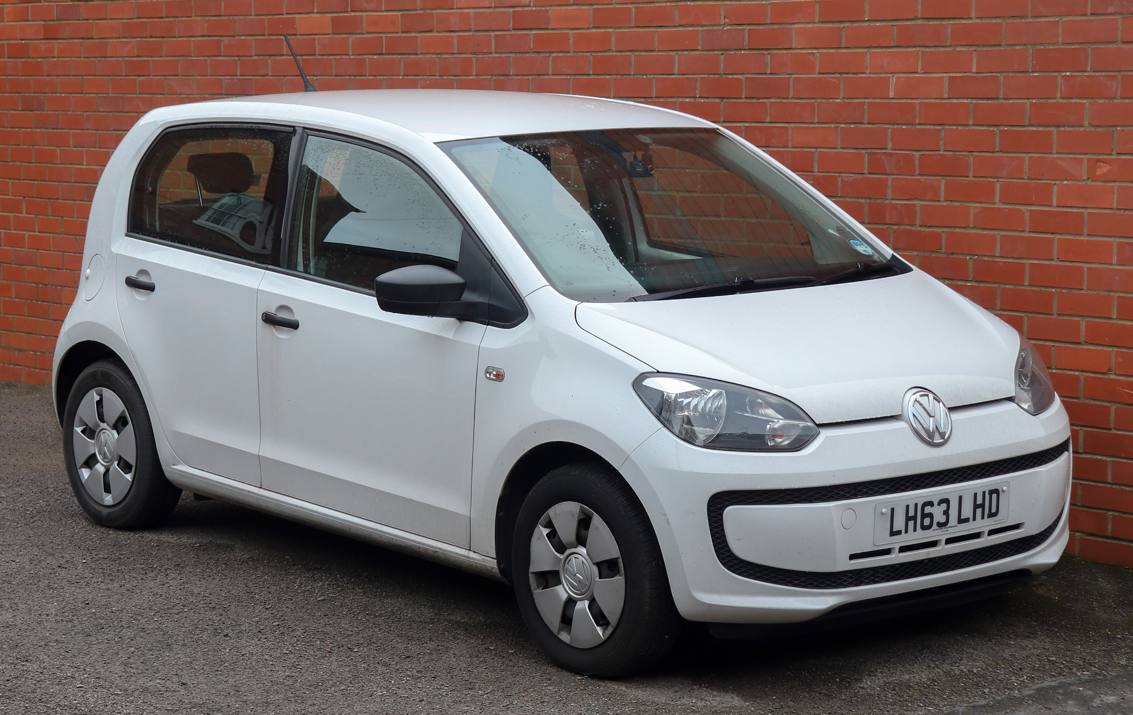 2013 Volkswagen Take UP! 1.0 Taken in Leamington Spa